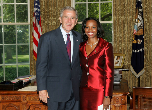 President Bush stands with Ambassador La Celia Aritha Prince of Saint Vincent and the Grenadines, June 6, 2008, in the Oval Office during a credentials ceremony for newly appointed ambassadors to Washington D.C. White House photo by Joyce N. Boghosian.